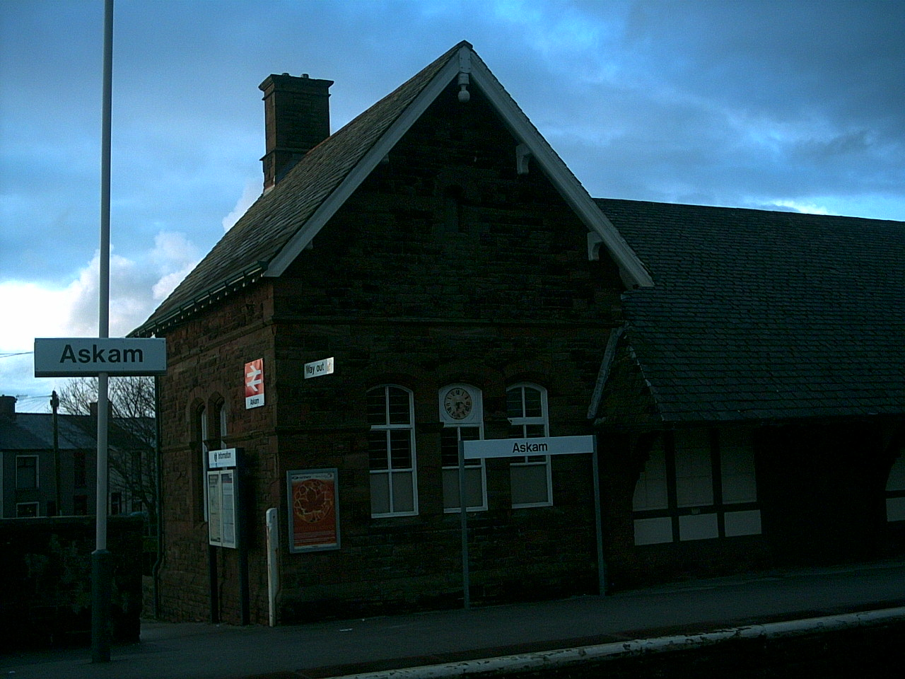 The Askam station.